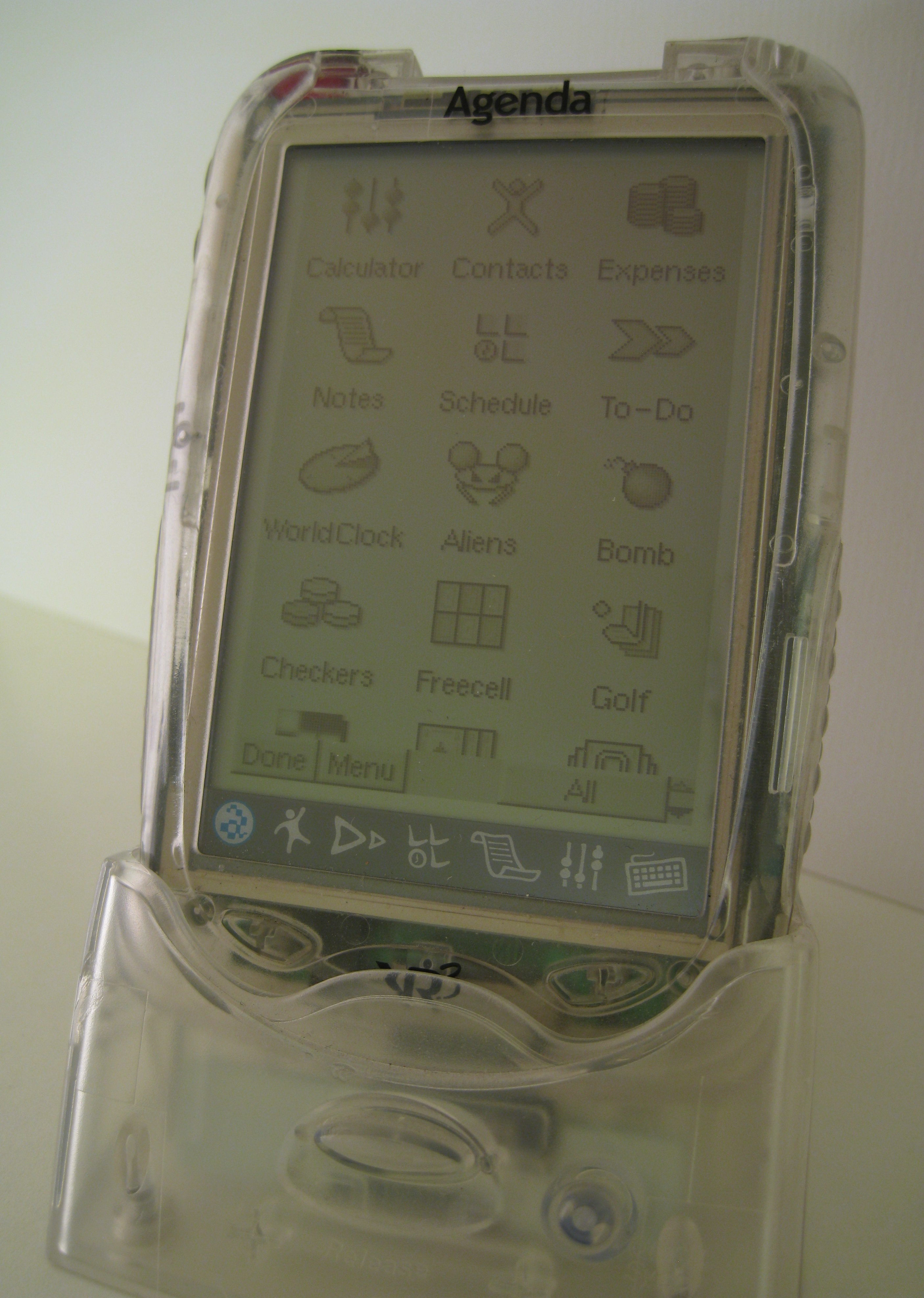 An Agenda VR3 PDA, in its docking cradle.